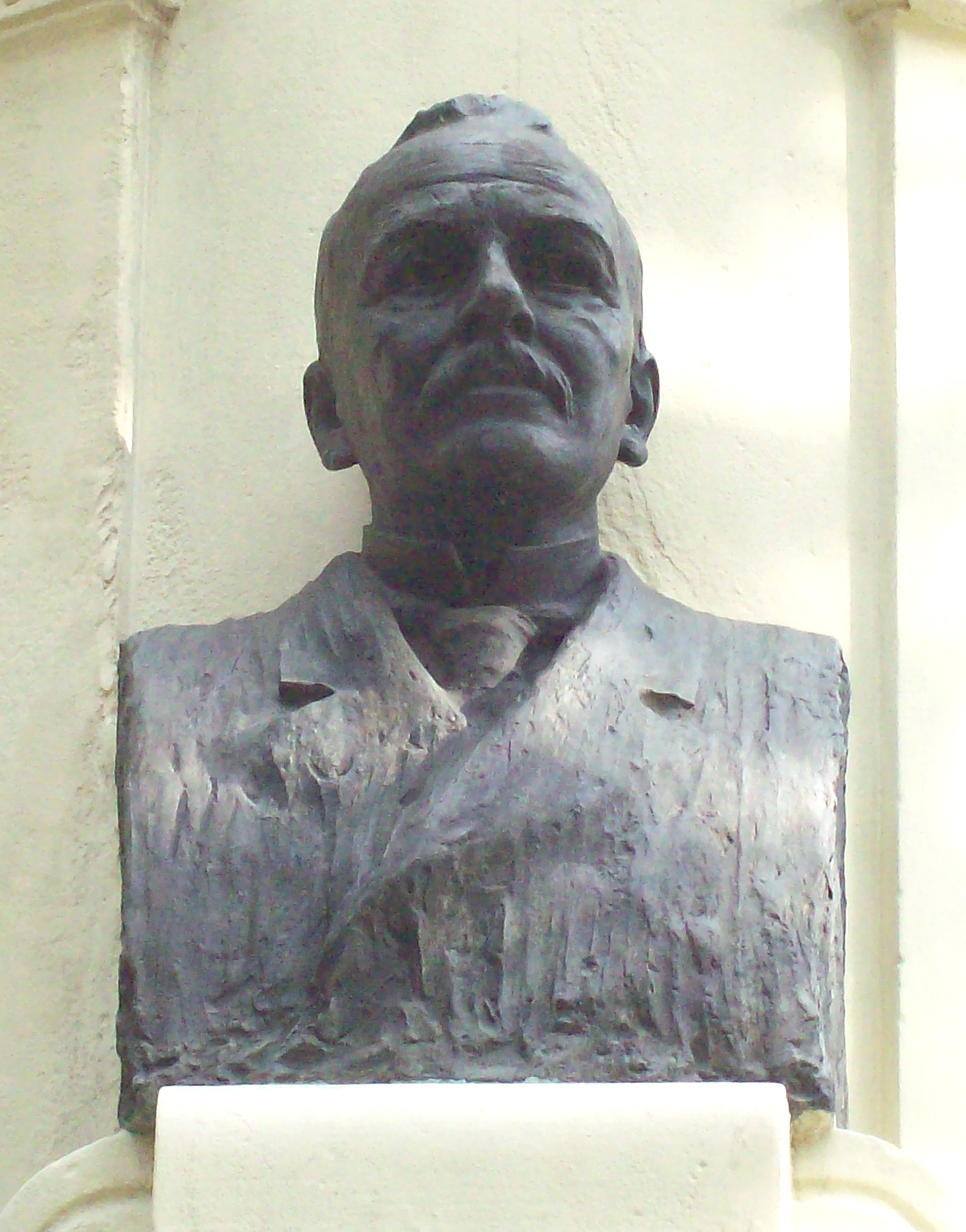 Bronze bust of Ricardo de la Vega (1839–1910). Detail of the Monument to the Madrilenian Sainete Writers at Calle de Luchana (street) in Madrid (Spain), made by sculptor Lorenzo Coullaut Valera and inaugurated on June 25, 1913.